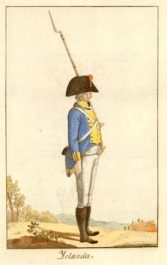 Depiction of a soldier of the Regimiento de Infantería Irlandesa from the "Estados Militares" documents published in 1805. The originals can now be found in the Anne Brown Military Collection of Rhode Island.